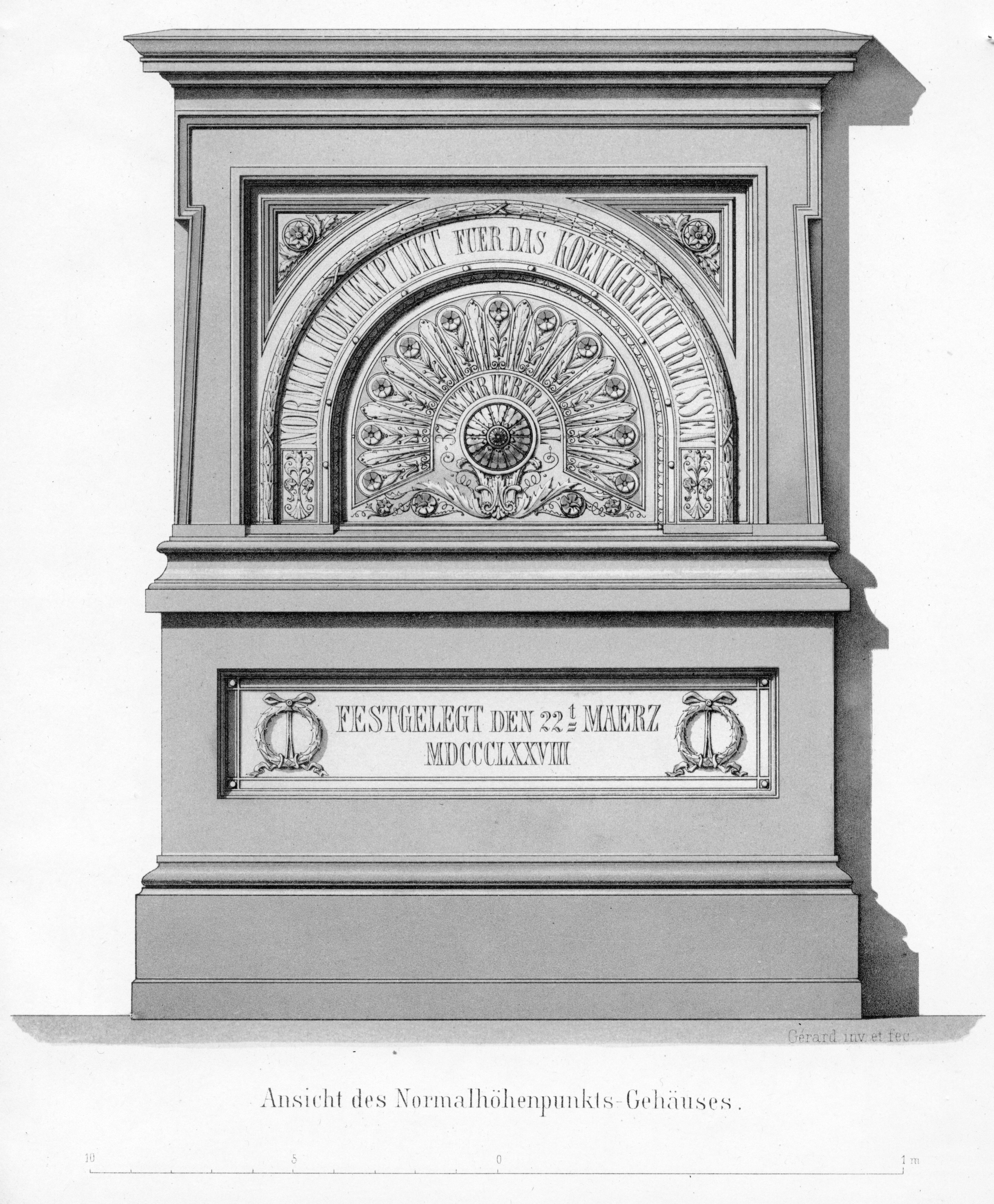 Mean sea level benchmark 1879, front view of cabinet